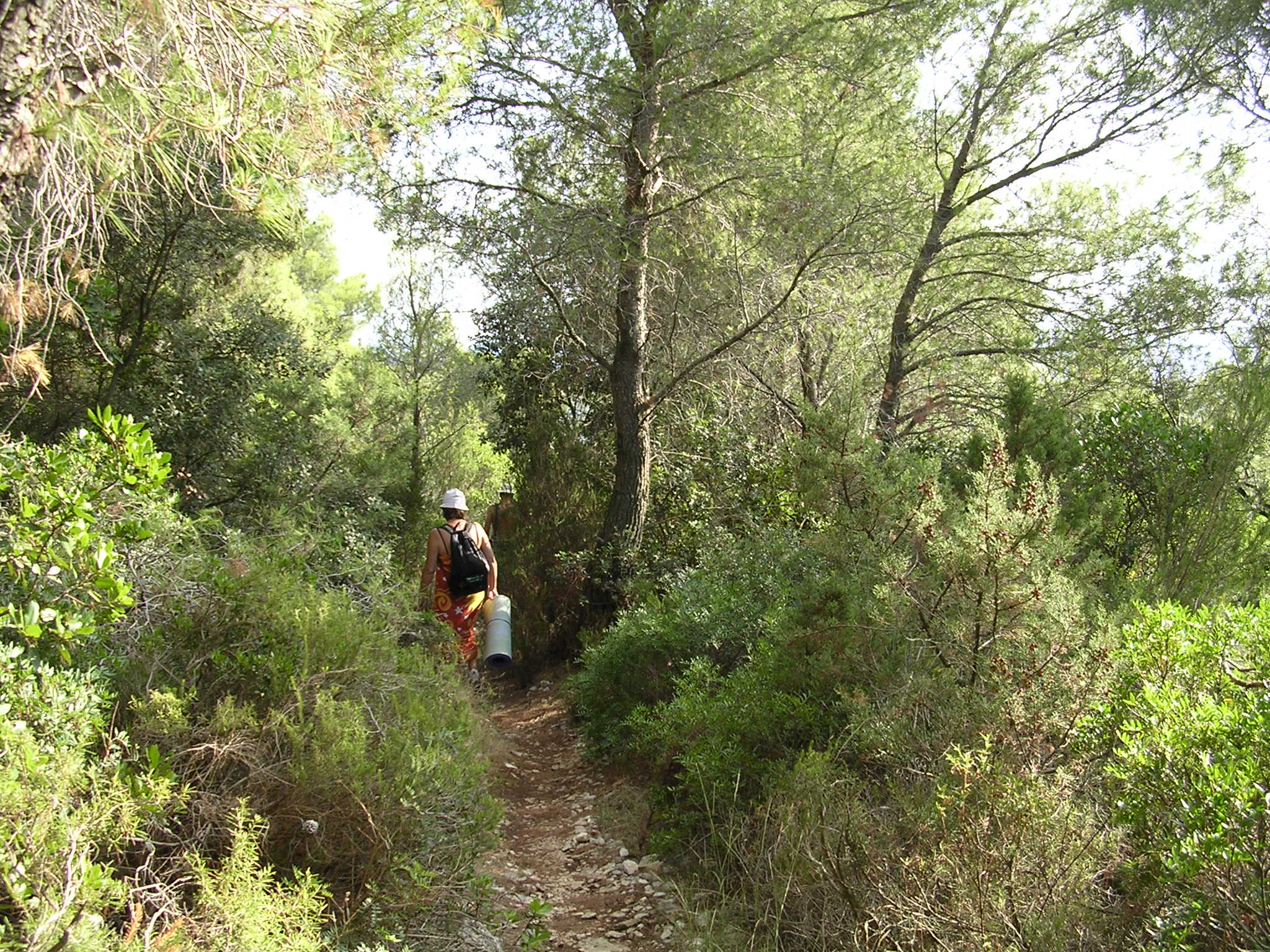 A forest on path to Smričevica cove, Vis island.